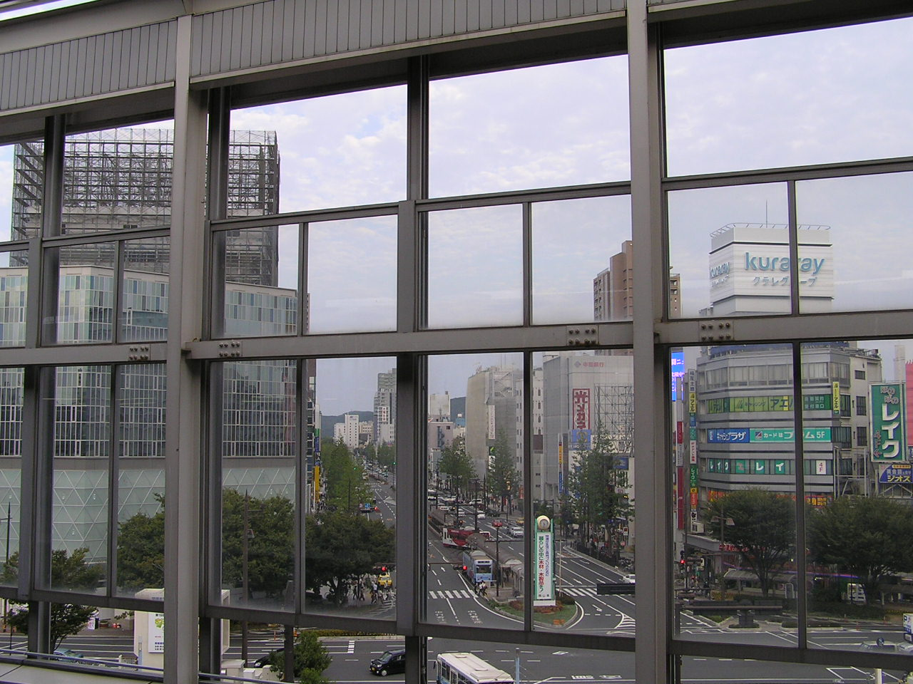 The Momotaro Main Street is looked at from Okayama Station.